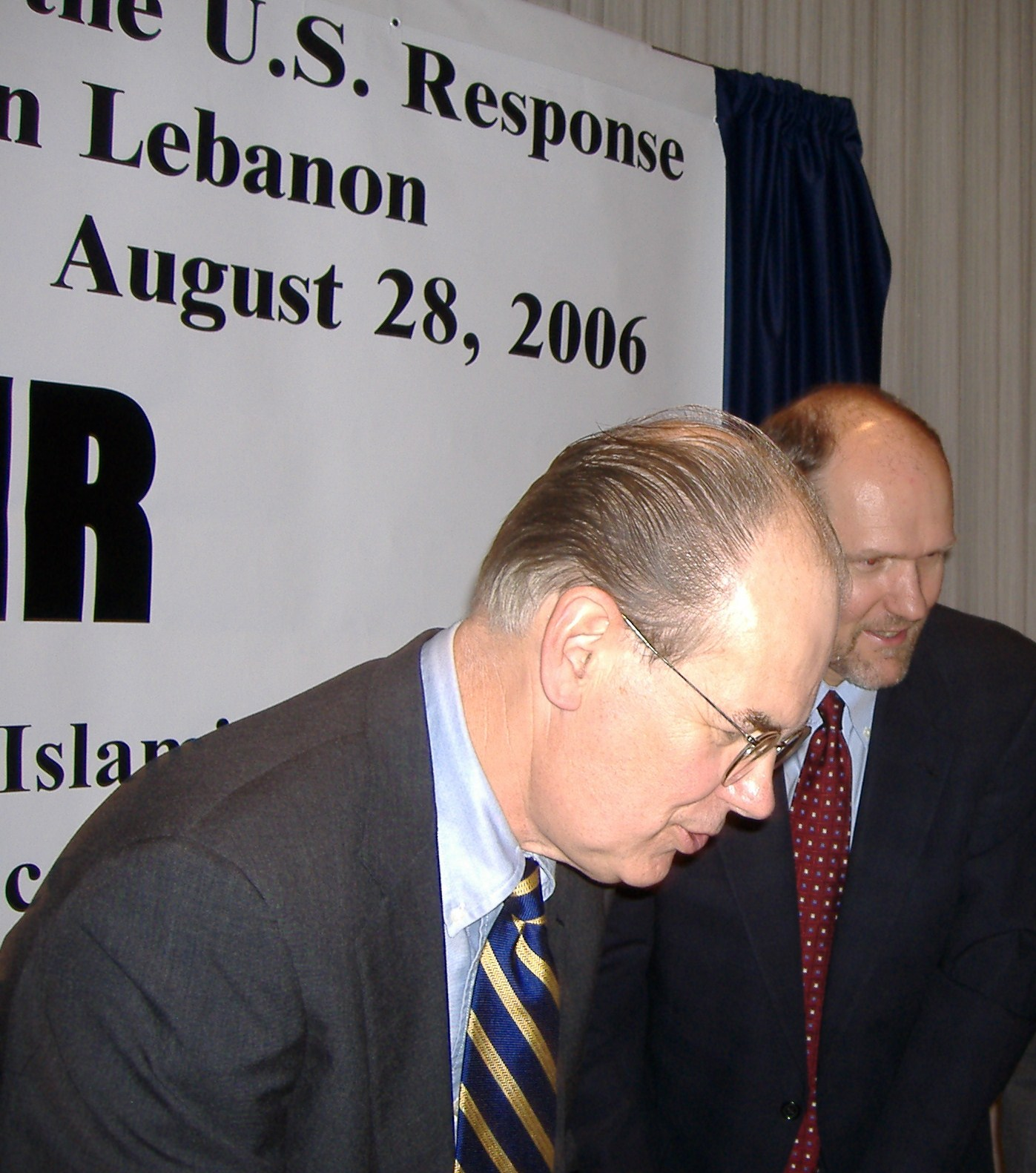 Professors John Mearsheimer (left) and Stephen Walt (right) at a National Press Club press conference in Washington, DC. on the topic of "The Israel Lobby and U.S. Foreign Policy" sponsored by Council on American-Islamic Relations (CAIR).